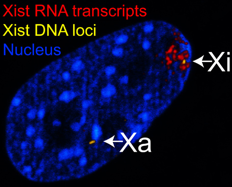 The figure shows confocal images from a combined RNA-DNA FISH experiment for Xist in female mouse fibroblast cells (Female-biased expression of long non-coding RNAs in domains that escape X-inactivation in mouse, B Reinius et al 2010, BMC Genomics (6), The figure was adapted from Figure 5 in the original publication and contrast was adjusted to make the figure clear in thumbnail format. Open access: Unrestricted use, distribution and reproduction in any medium is permitted, provided the original article is properly cited.